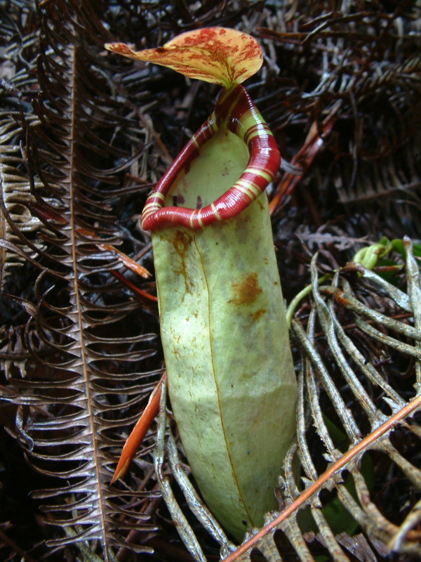 Nepenthes mirabilis × Nepenthes sumatrana